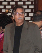 Aamir Khan, Vinod Khanna at Mukesh Ambani's dinner bash for UN Secretary General